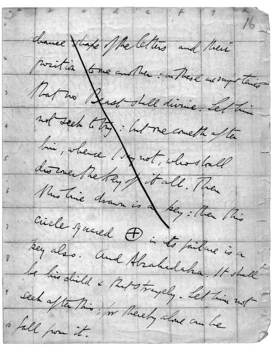 Liber AL - page 60